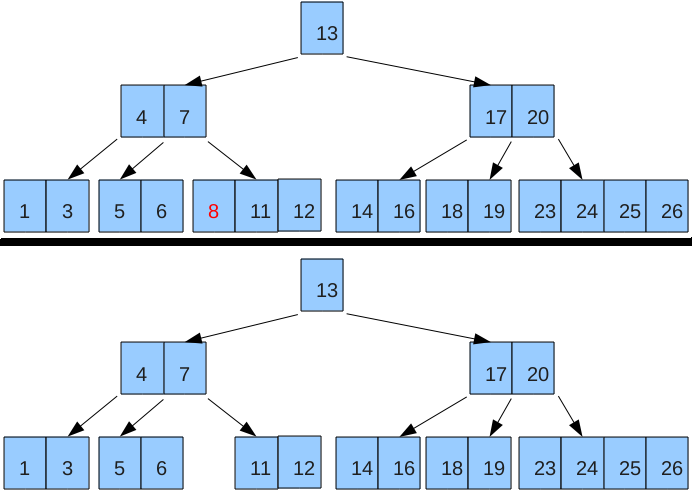 Delete-key-from-Btree-1